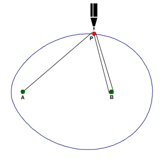 Image showing a pen-pencil-string construction of a bifocal oval defined by AP + 2BP = c described by James Clerk Maxwell.